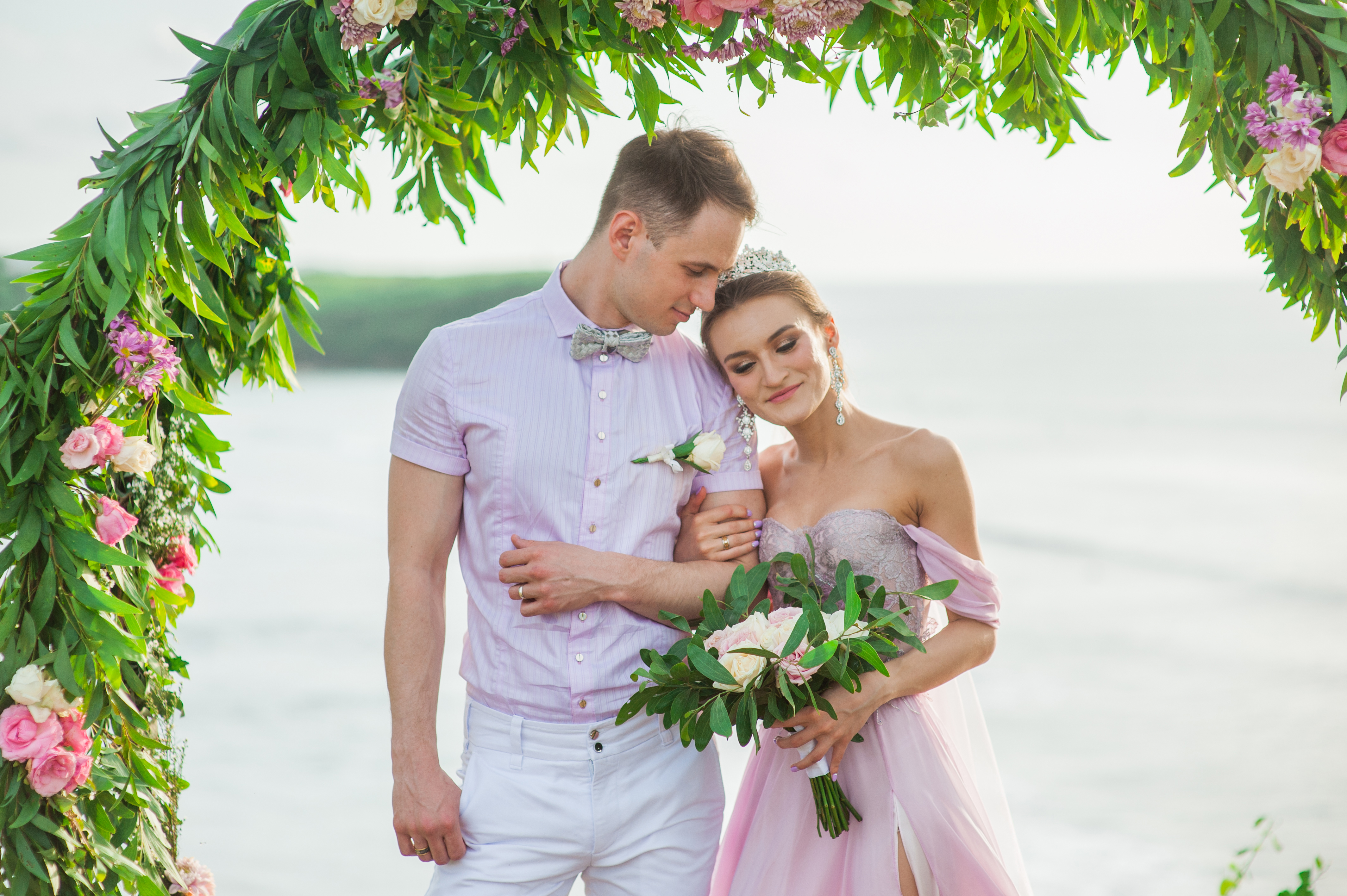 Couple at a wedding ceremony in Indonesia This photo has been taken in the country: Indonesia